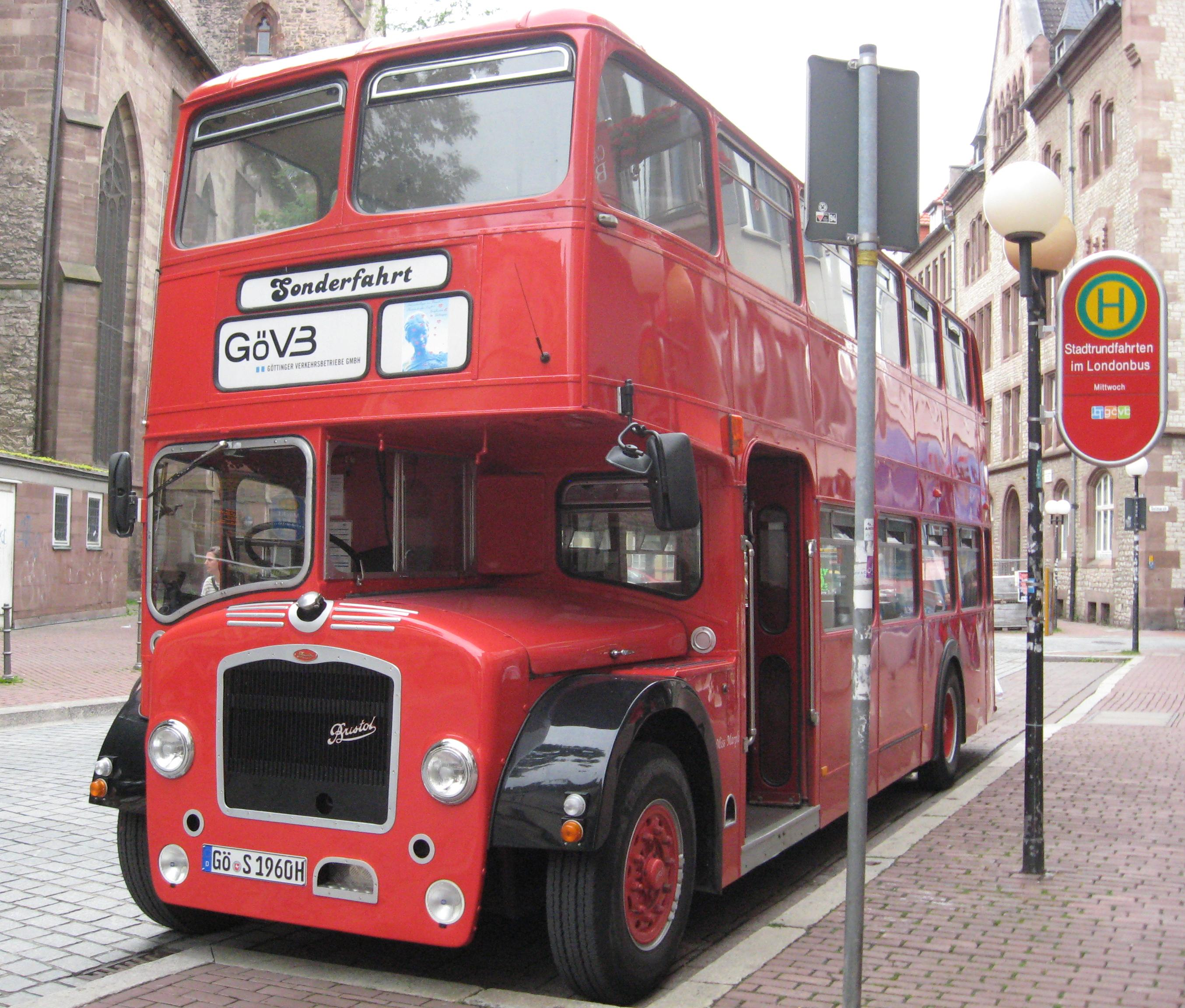 Bristol Lodekka FLF, used for guided city tours, Göttingen, Germany check usage